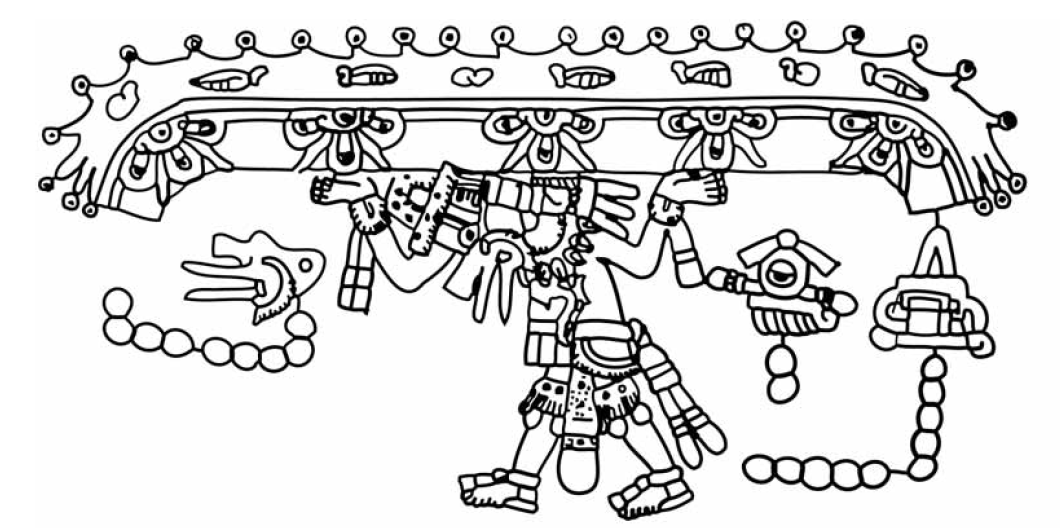 Lord 8 Wind bringing rain to Mixtec region